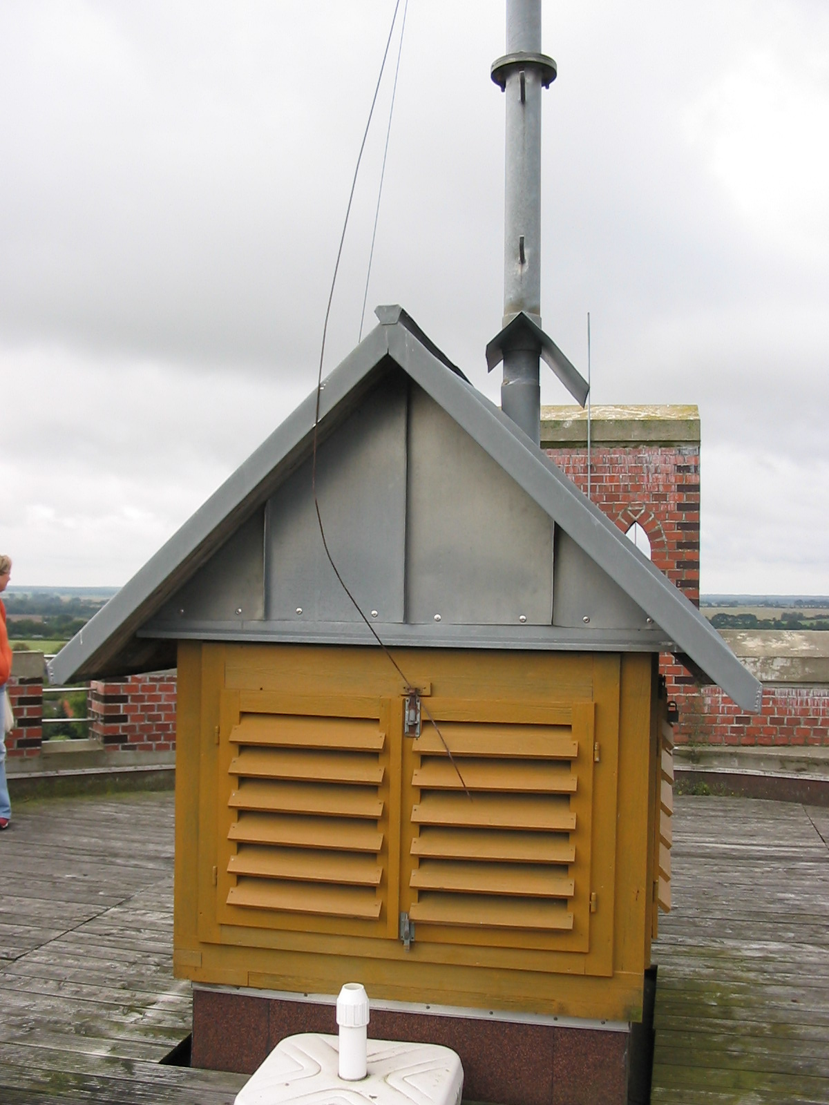 Top of the water tower in Schwerin in the borough Neumühle